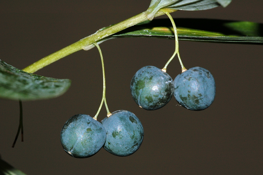 Polygonatum multiflorum, Nied, Frankfurt/Main, Germany